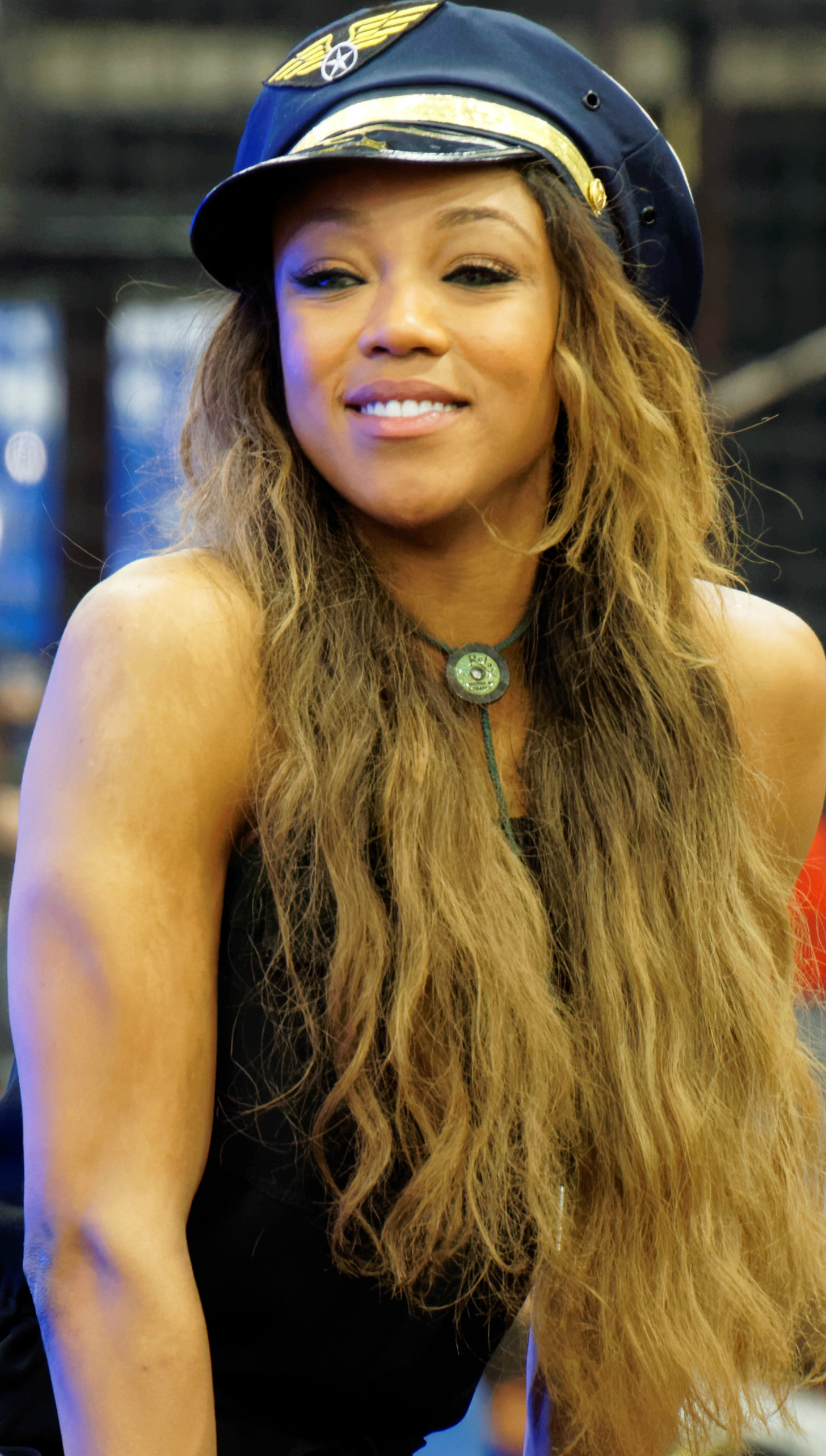 Alicia Fox during the WrestleMania 32 Axxess in April 1, 2016.